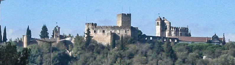 Castle of Tomar